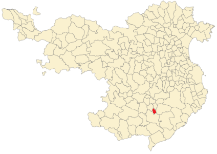 Sant Andreu Salou